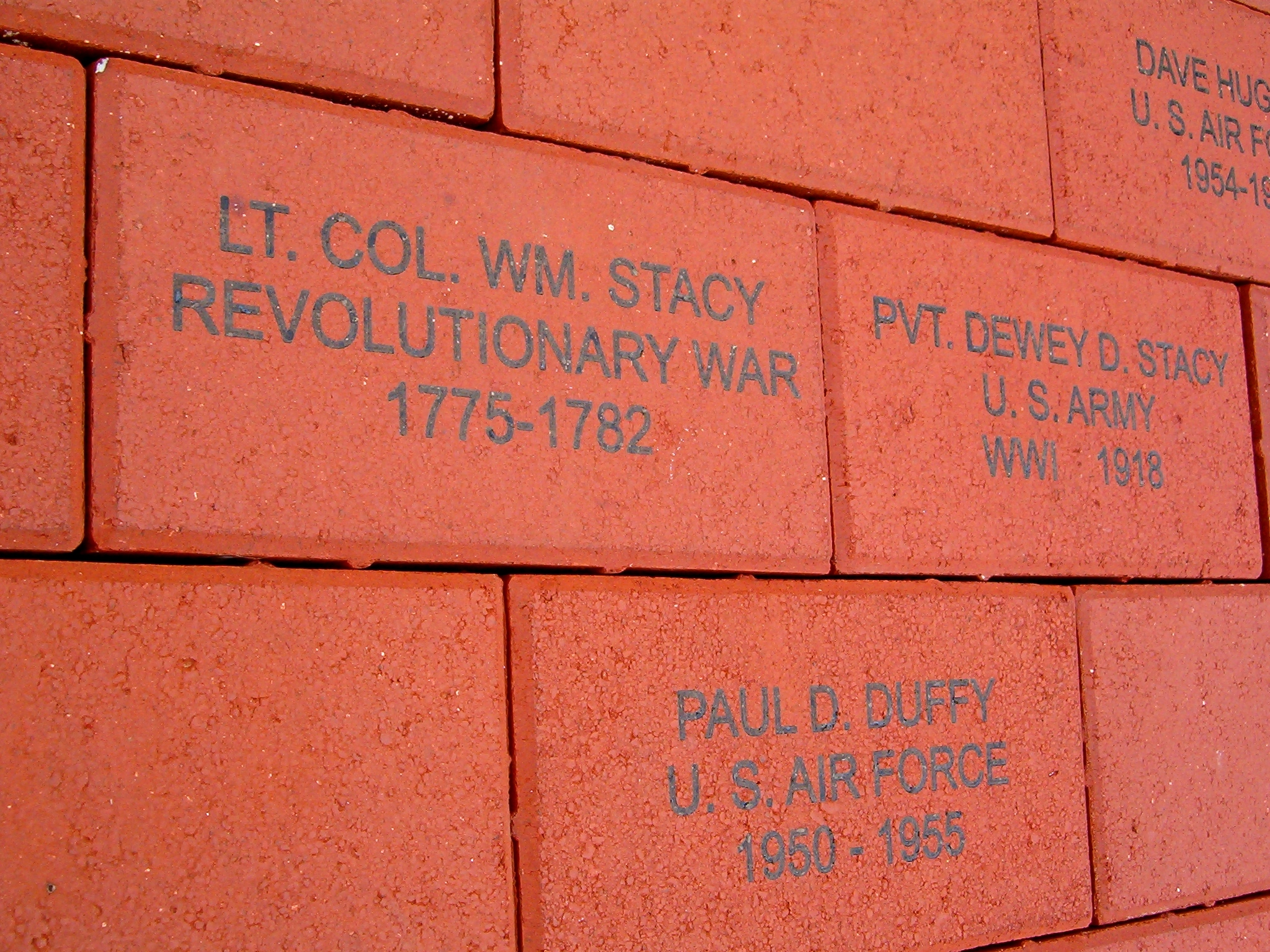 Veterans Walk of Honor in Marietta, Ohio William Stacy brick, located on the Veterans Walk of Honor adjacent to the Ohio National Guard Armory on Front Street in Marietta.